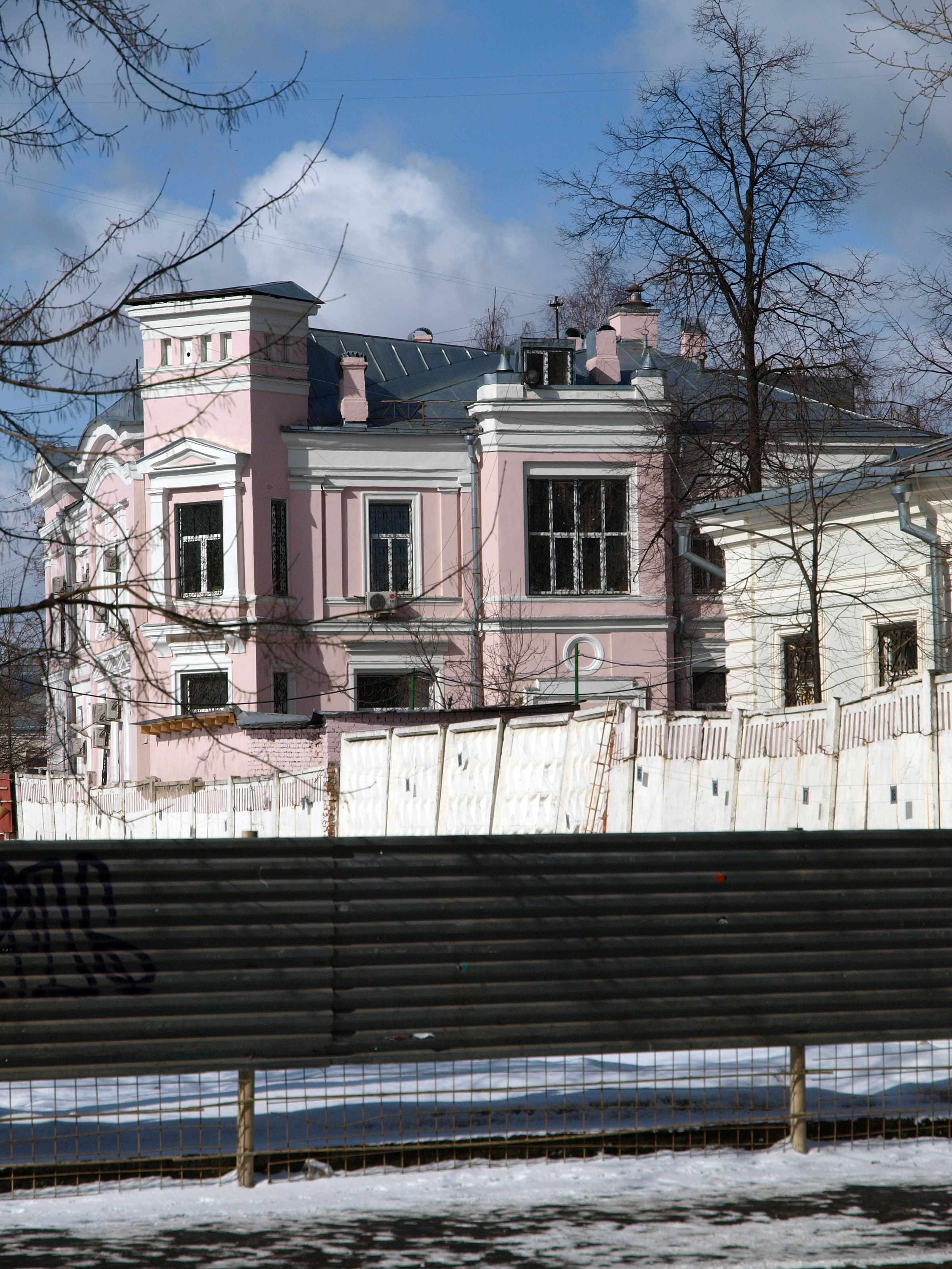 Brigadirsky Lane, Moscow